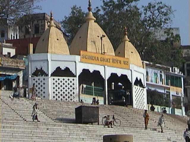 See Varanasi Development Cooperation Handbook/Stories/Responsible Development - Varanasi The Varanasi Heritage Dossier Kautilya Society Play media Vrinda Dar - How we got involved in heritage protection of Varanasi